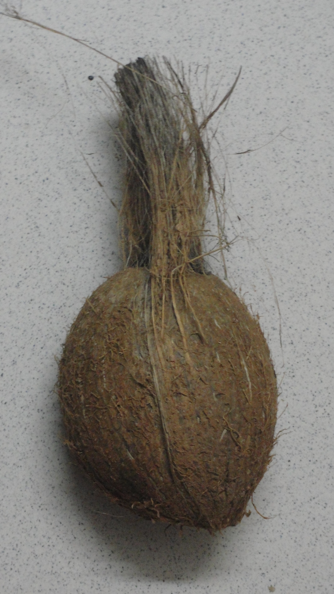 this photo depicting coir pith removed coconut (Cocos nucifera)